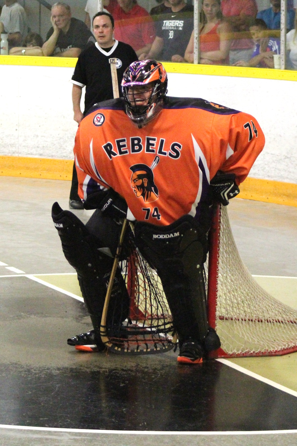 This photo was taken by Devan Mighton during the 2015 OJBLL season.